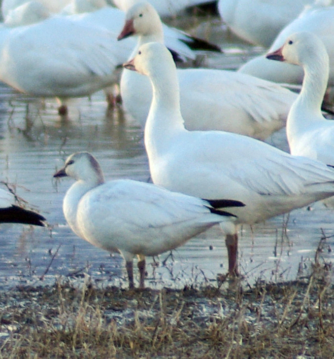 Immature Ross's Goose, Chen rossii or Anser rossii (lower left) with adult white-phase Lesser Snow Geese, Chen caerulescens caerulescens or Anser caerulescens caerulescens, Bosque del Apache National Wildlife Refuge, New Mexico.